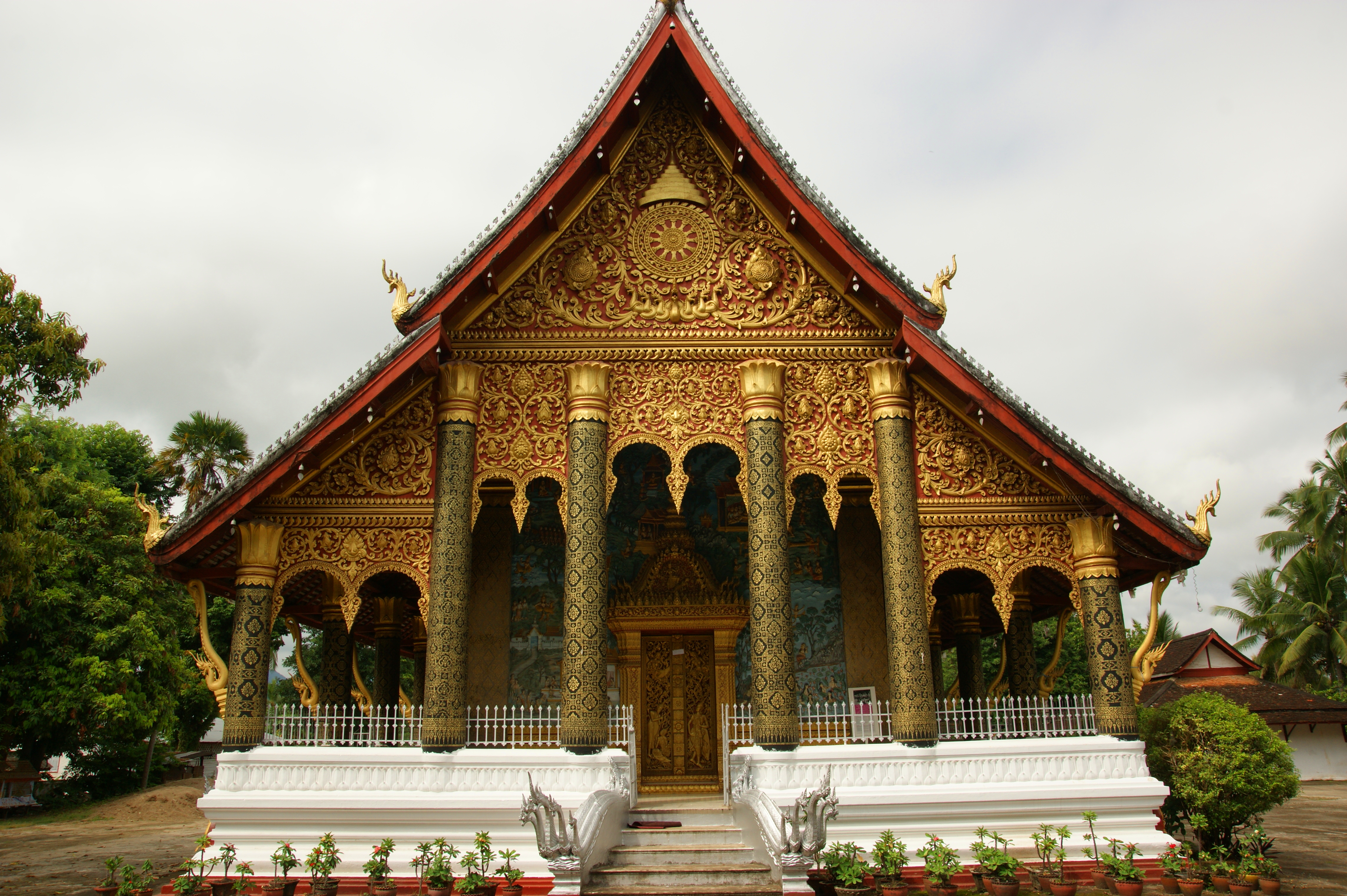 The Wat Mahathat or "Monastery of the Stupa" temple at Luang Prabang, Laos, was first founded in 1548 by king Say Setthathirath who ruled from Chiang Mai. It was rebuilt between 1907 and 1910 when the original temple structure collapsed during a typhoon in April 1900 during evening prayers which caused many deaths among local Buddhist worshippers. The temple was restored periodically from 1963 and 1991 onwards with the addition of an ornamented facade with decorated rosette columns.